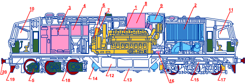 Schema of diesel locomotive TE109 produced in USSR for export